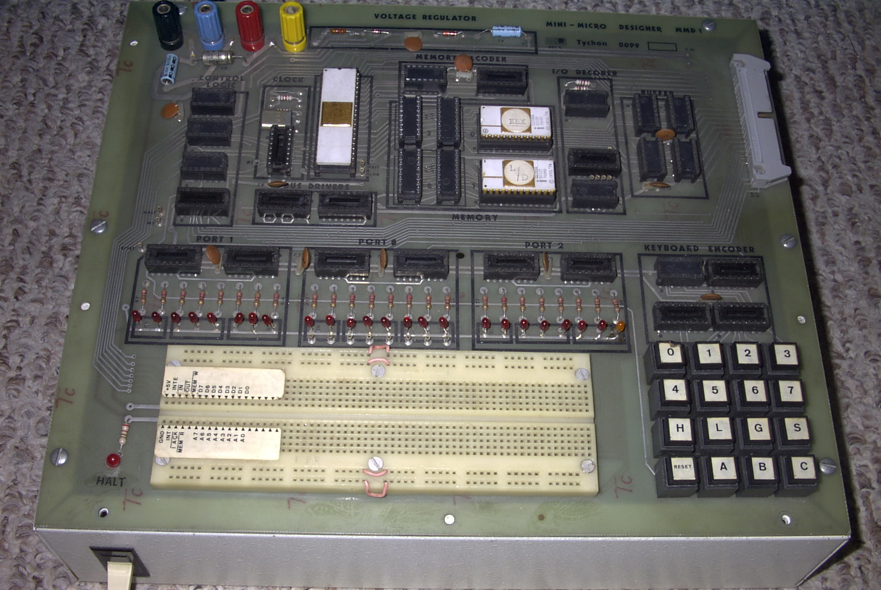 A very early MMD-1 Prototype, one of the first 10 MMD-1s produced by E&L Instruments in early 1976. Most of the chips have been removed for cleaning, but the C8080A (datecode 1976) and C1702 EPROMS (datecode 1974) are visible as the large white chips in this photo.